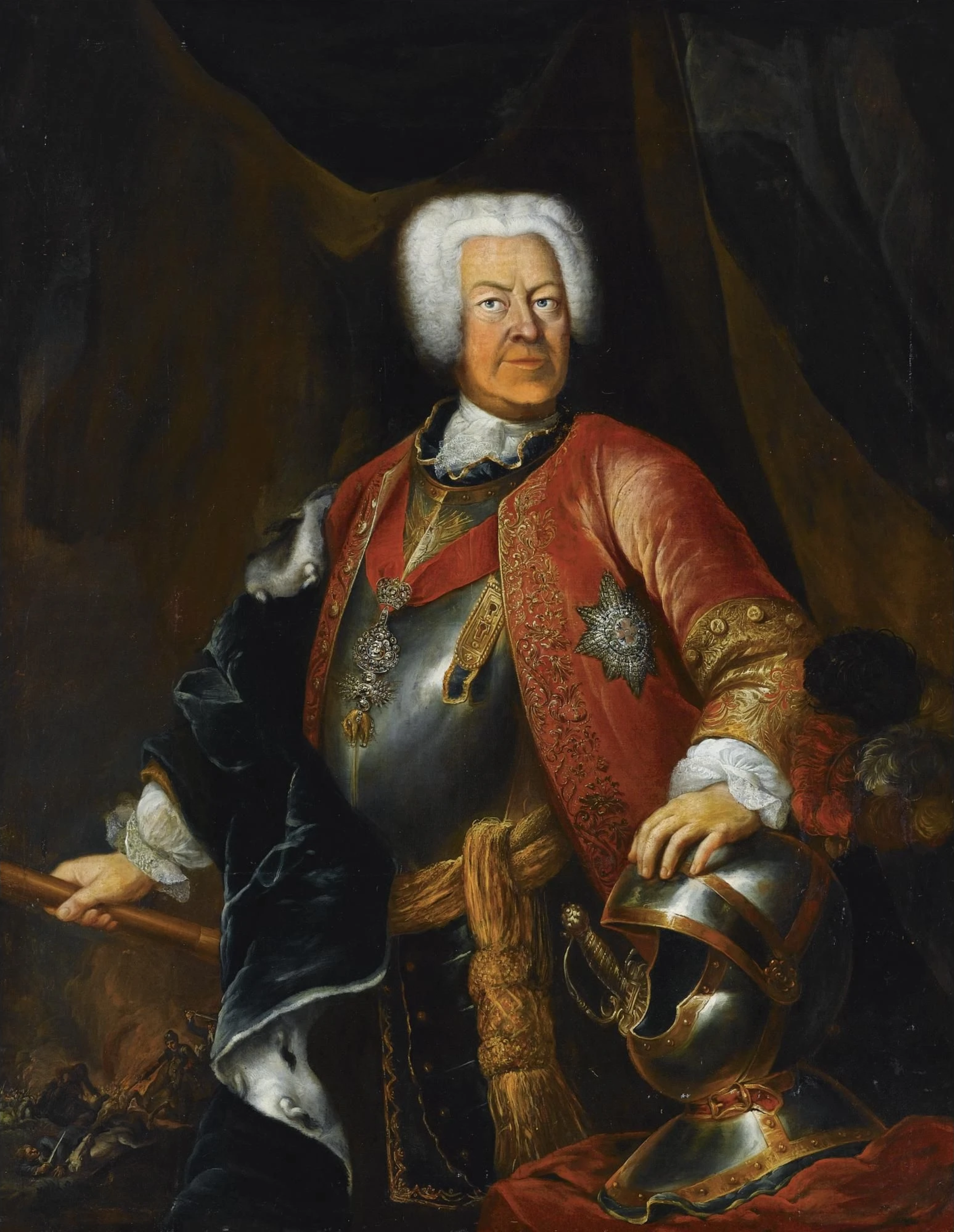 Portrait of Charles Alexander, Duke of Württemberg (1684-1737), wearing armour and the order of the Golden Fleece, a cavalry battle scene in the distance